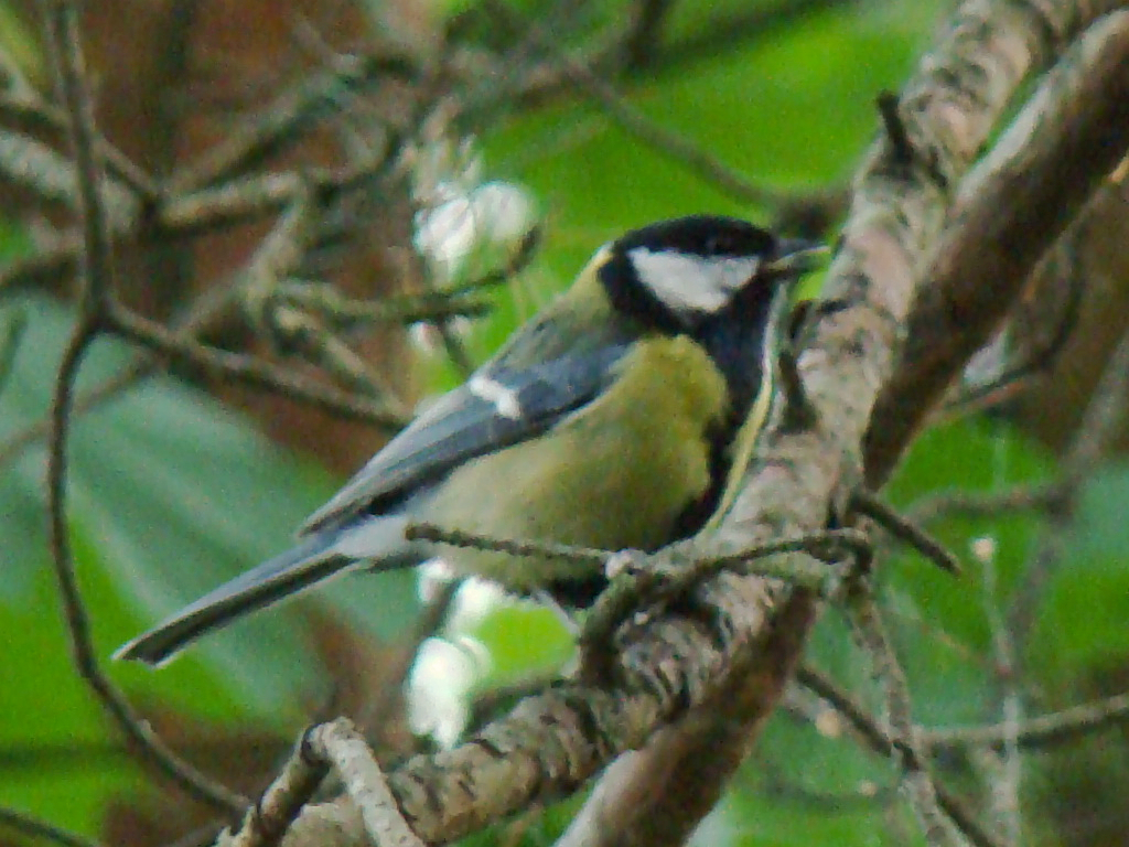 Photo of the Great Tit (Parus major) in in Vingis park, Vilnius, Lithuania.